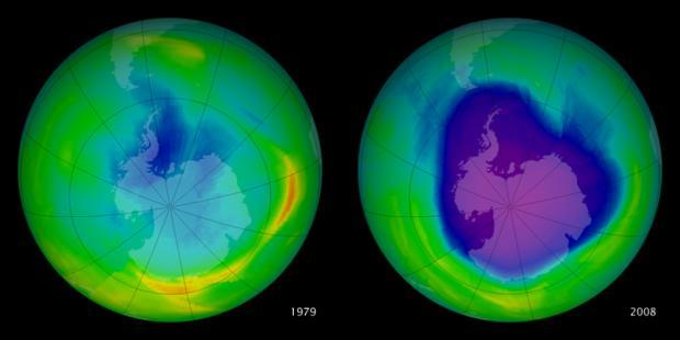 Purple and dark blue areas are part of the ozone hole. This pair of images show the beginning and end of a nearly 30-year series of images that are part of NASA's World of Change: Antarctic Ozone Hole feature. The 1979 image was captured by NASA's Total Ozone Mapping Spectrometer (TOMS) instrument aboard Nimbus-7, and the 2008 image is from the Royal Netherlands Meteorological Institute Ozone Monitoring Instrument (OMI) that flies on NASA's Aura satellite.